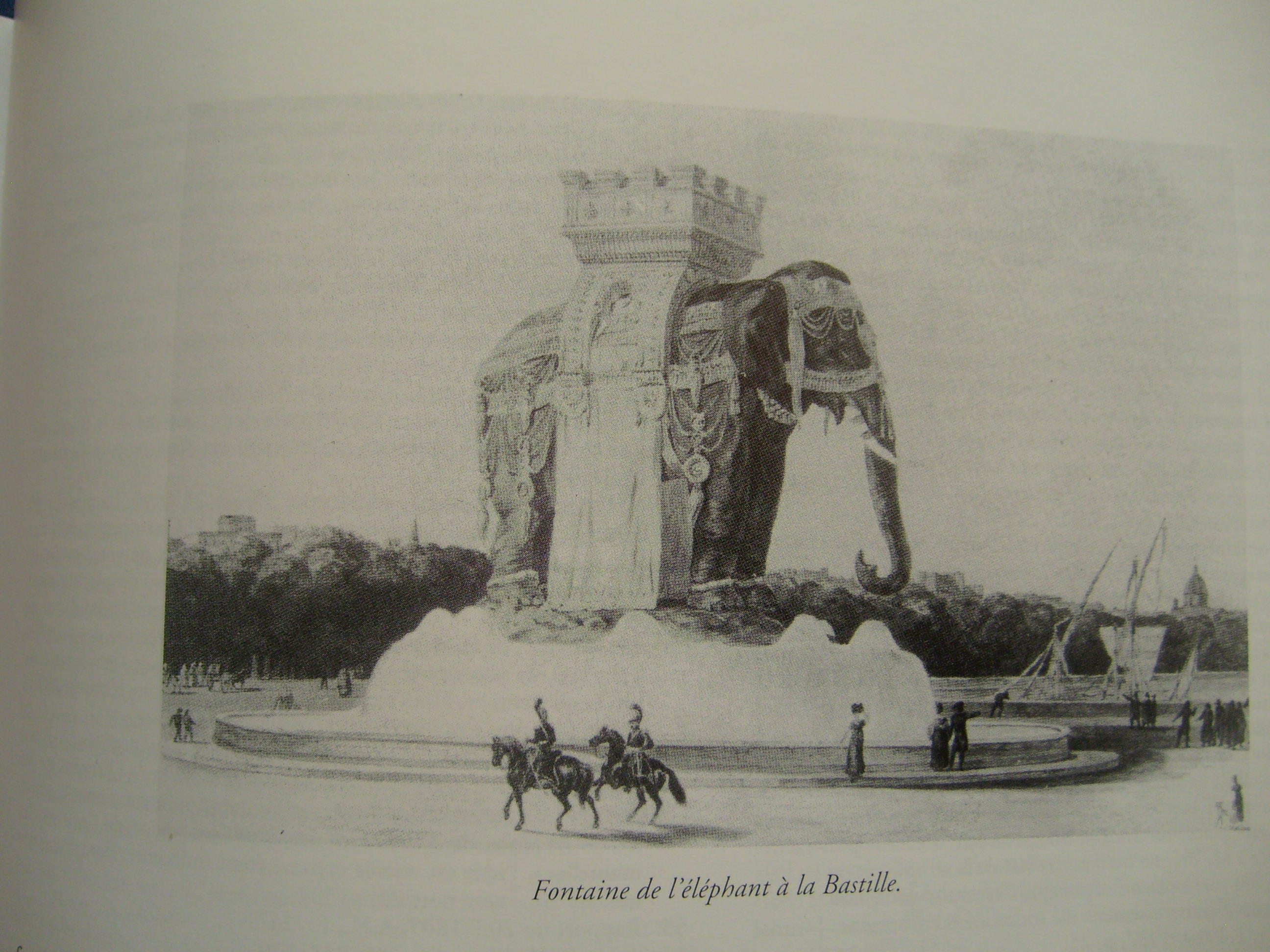 Anonymous Engraving of the Fontaine de l'elephant, Place Bastille, Paris, made about 1812. Engraving from the Carnavalet Museum, Paris.